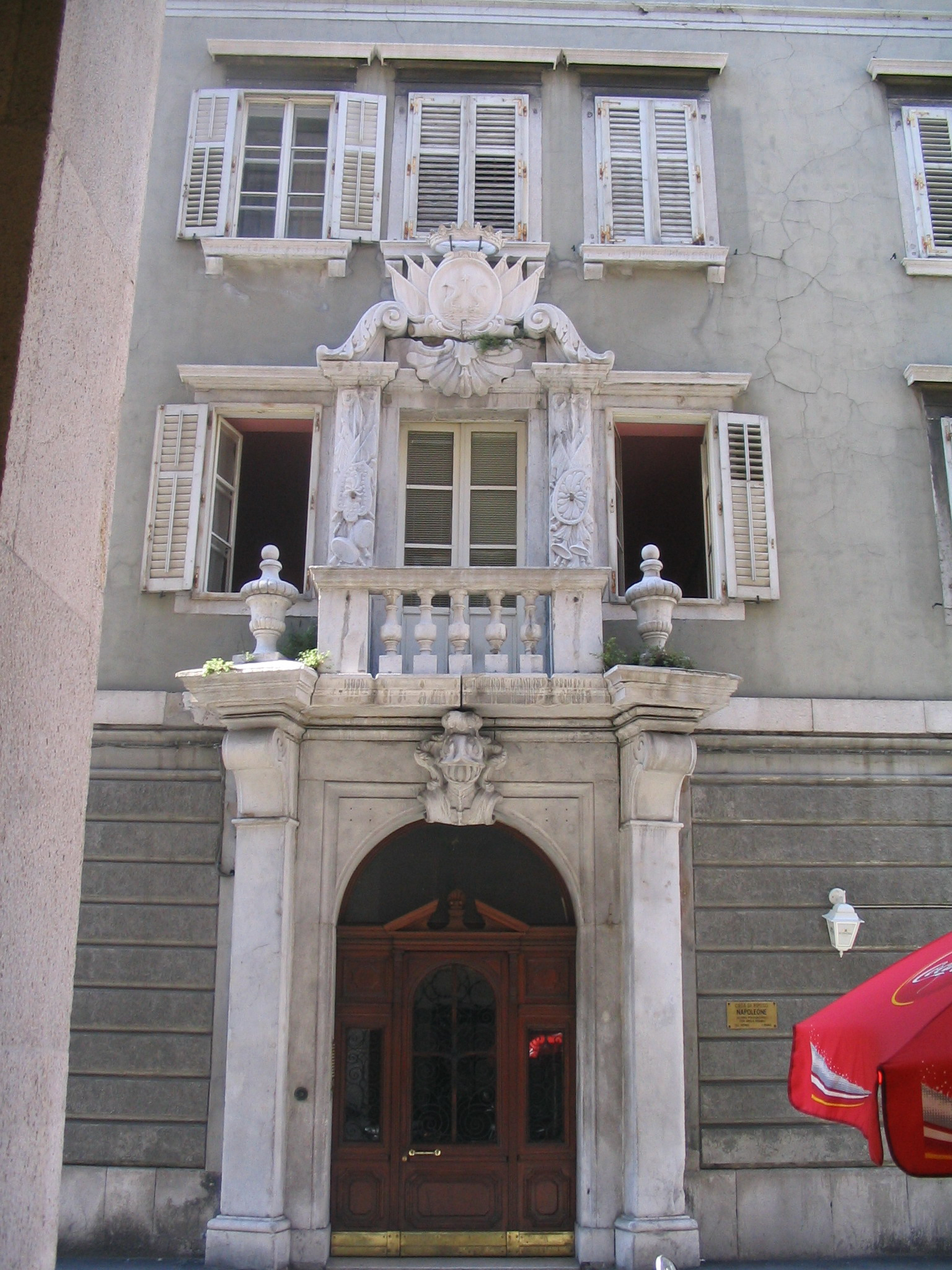 Palazzo Brigido, located in the neighbours of Piazza Unità d'Italia in Trieste, Italy.